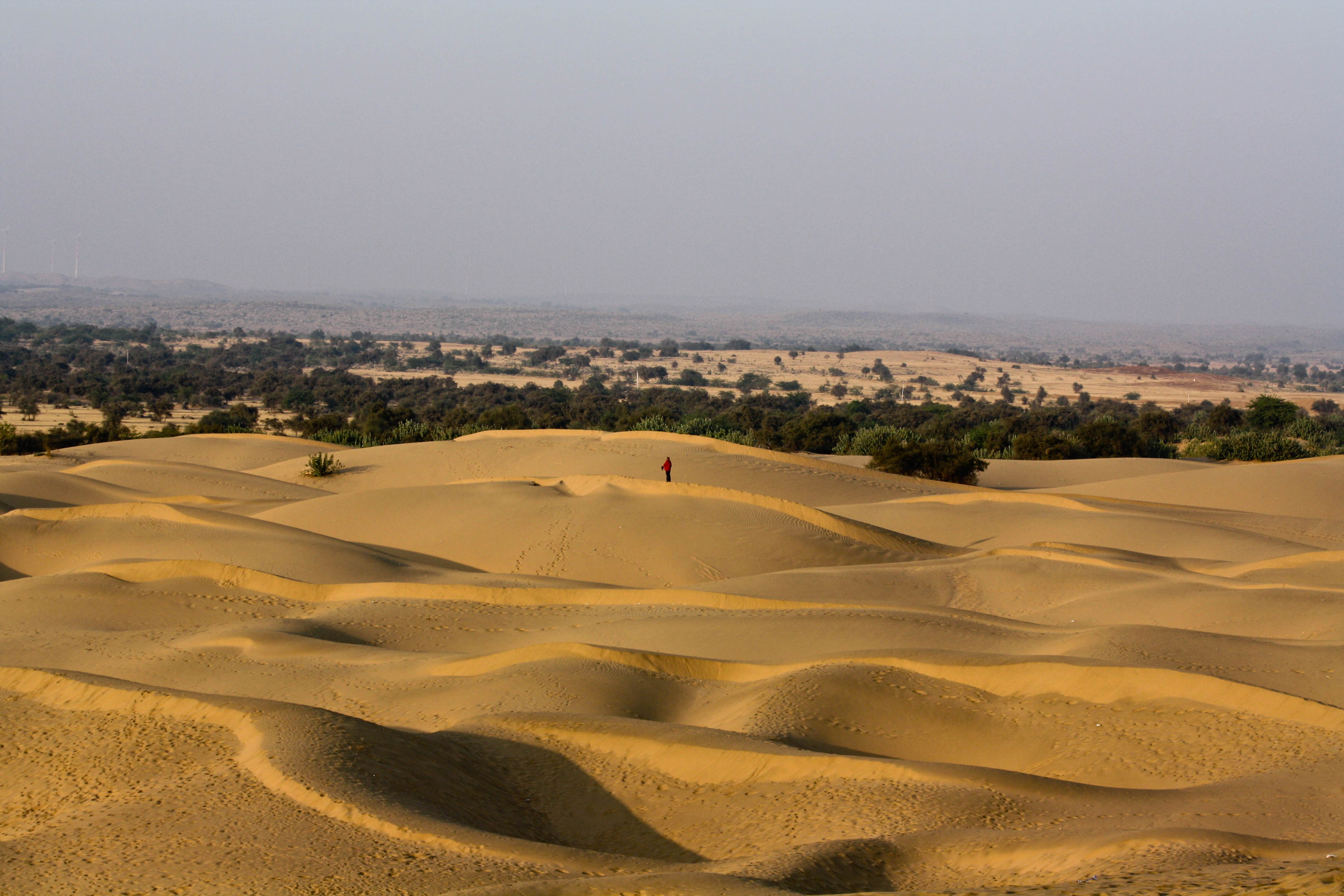 The western state of Rajasthan hosts the large Thar desert in northern India. Sand dunes are common in this dry area. The region is home to Jaipur, Jodhpur and many culturally important cities.